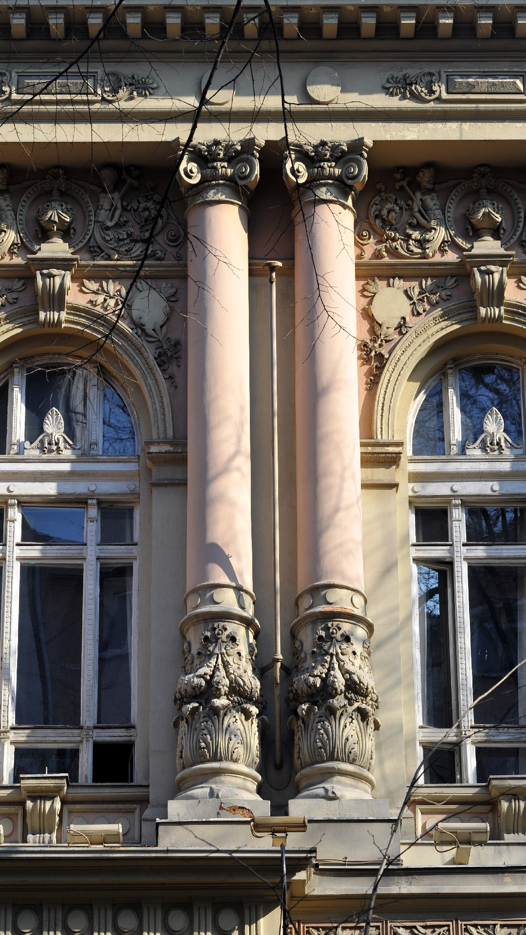 Details on building of the Third Belgrade Gymnasium in Belgrade